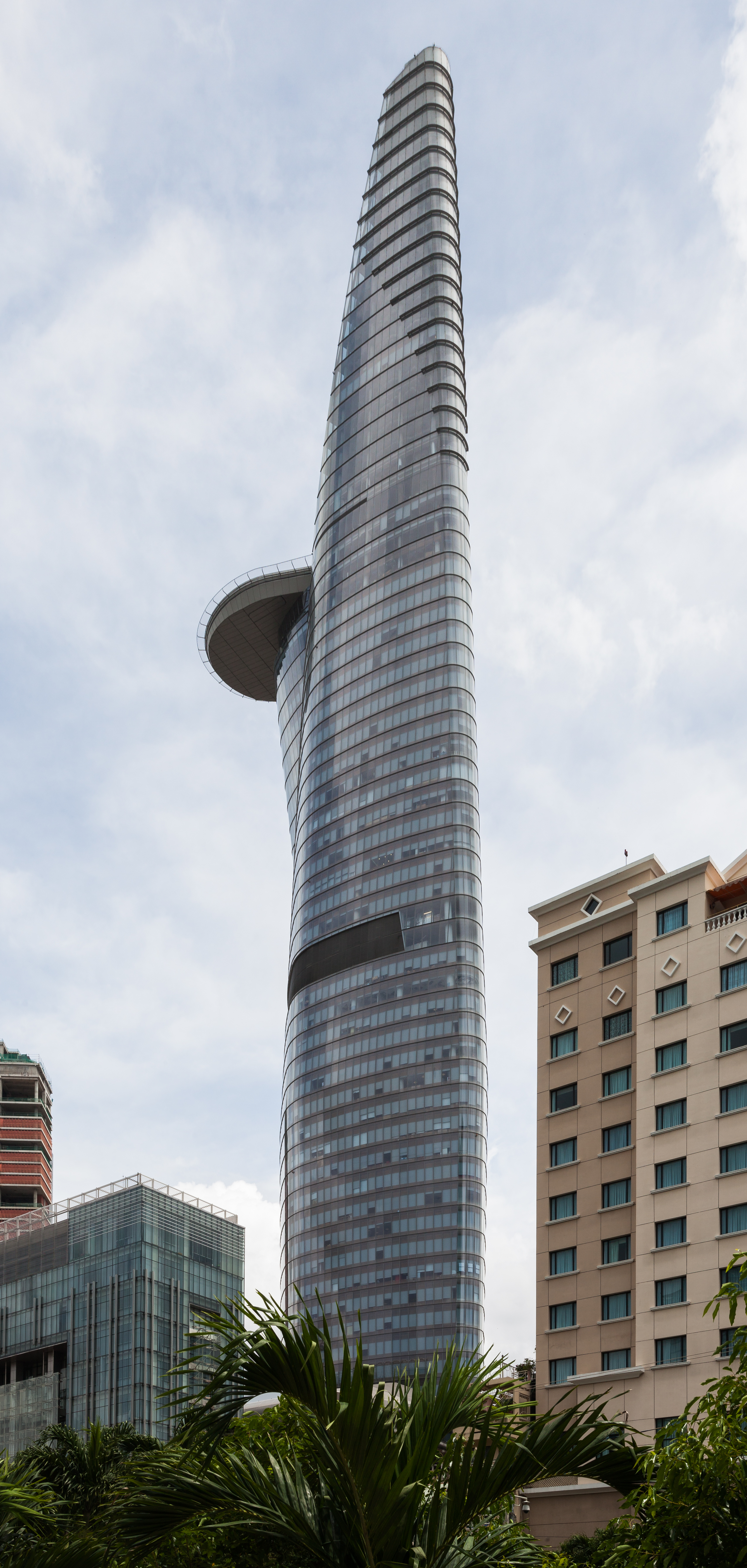 Bitexco Financial Tower, Ho Chi Minh City, Vietnam